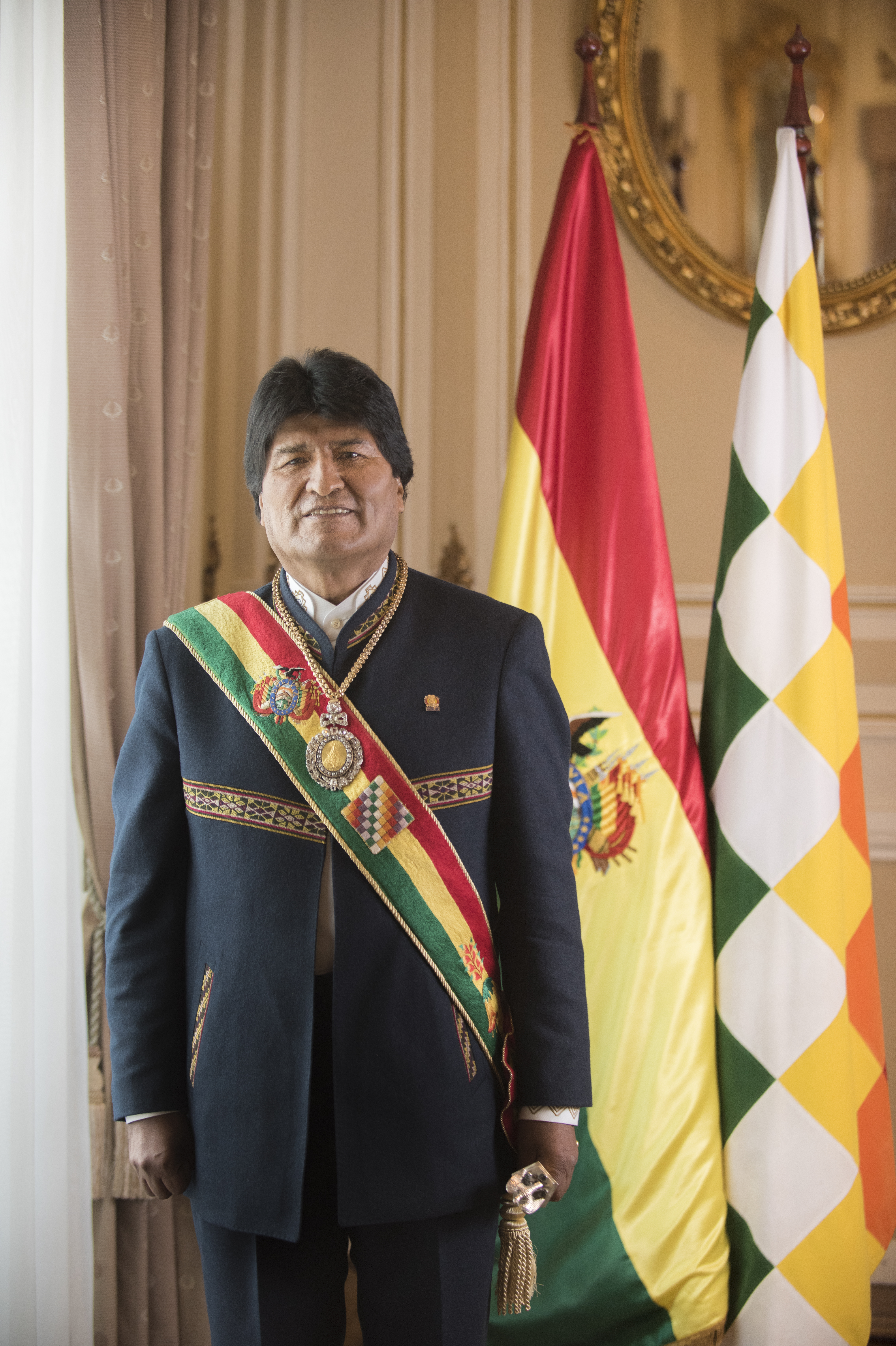 President of Bolivia since 2006